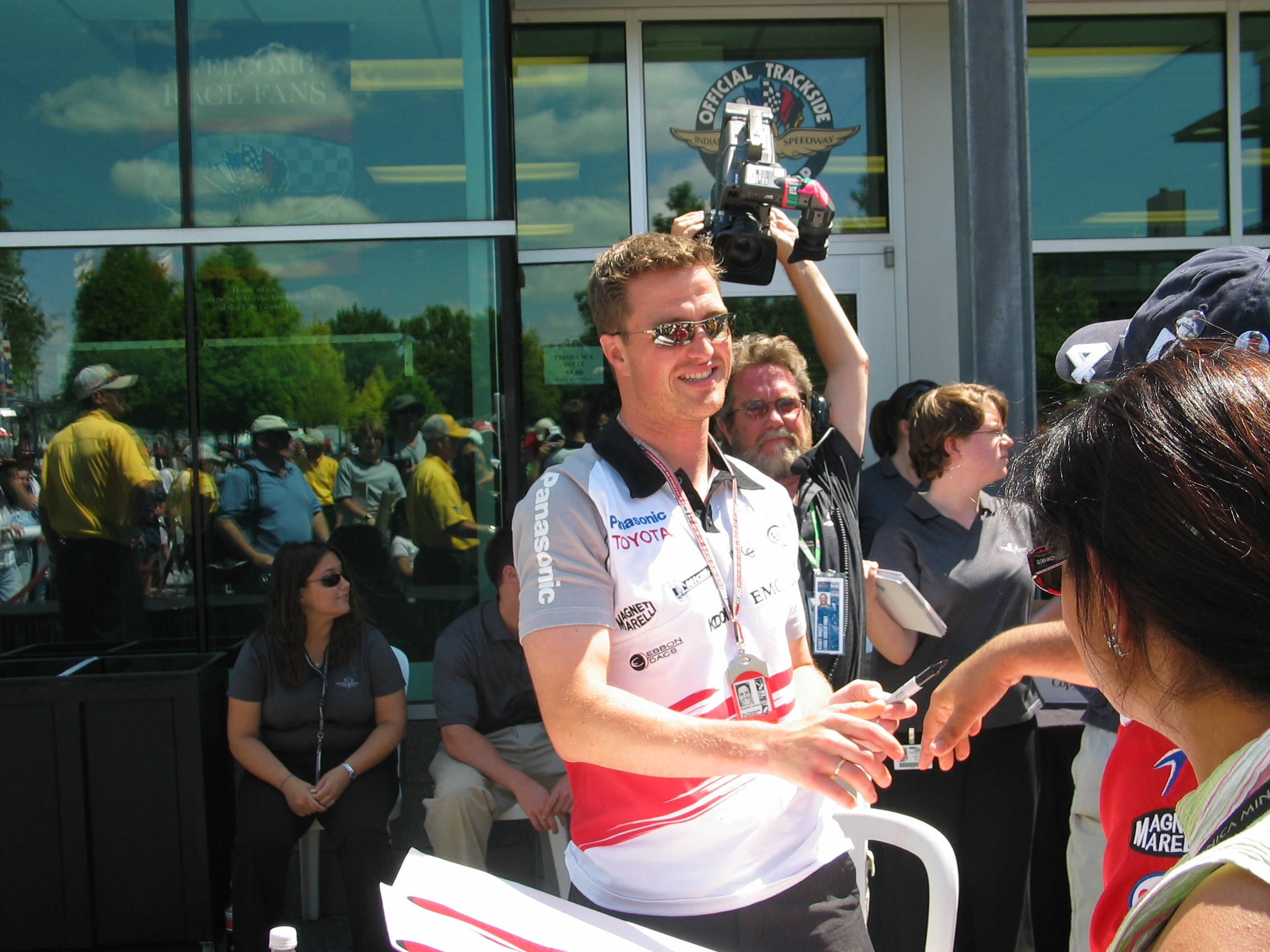 Ralf Schumacher at an autograph session at the 2005 United States Grand Prix. Photographed by: Chris J. Moffett